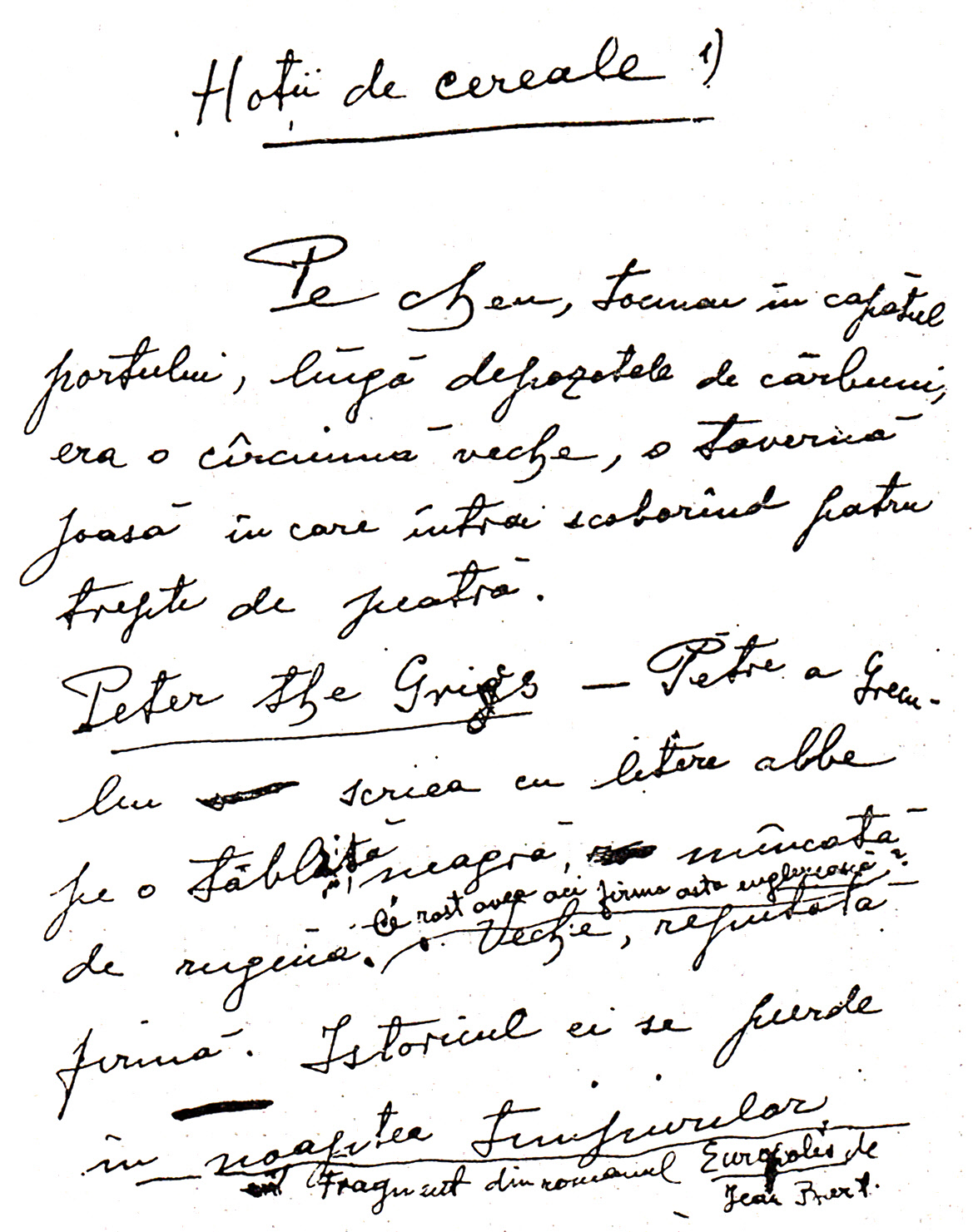 Hoţii de cereale ("Grain Thieves"), fragment from the novel Europolis, by Romanian author Eugeniu Botez (Jean Bart). In the author's own handwriting.